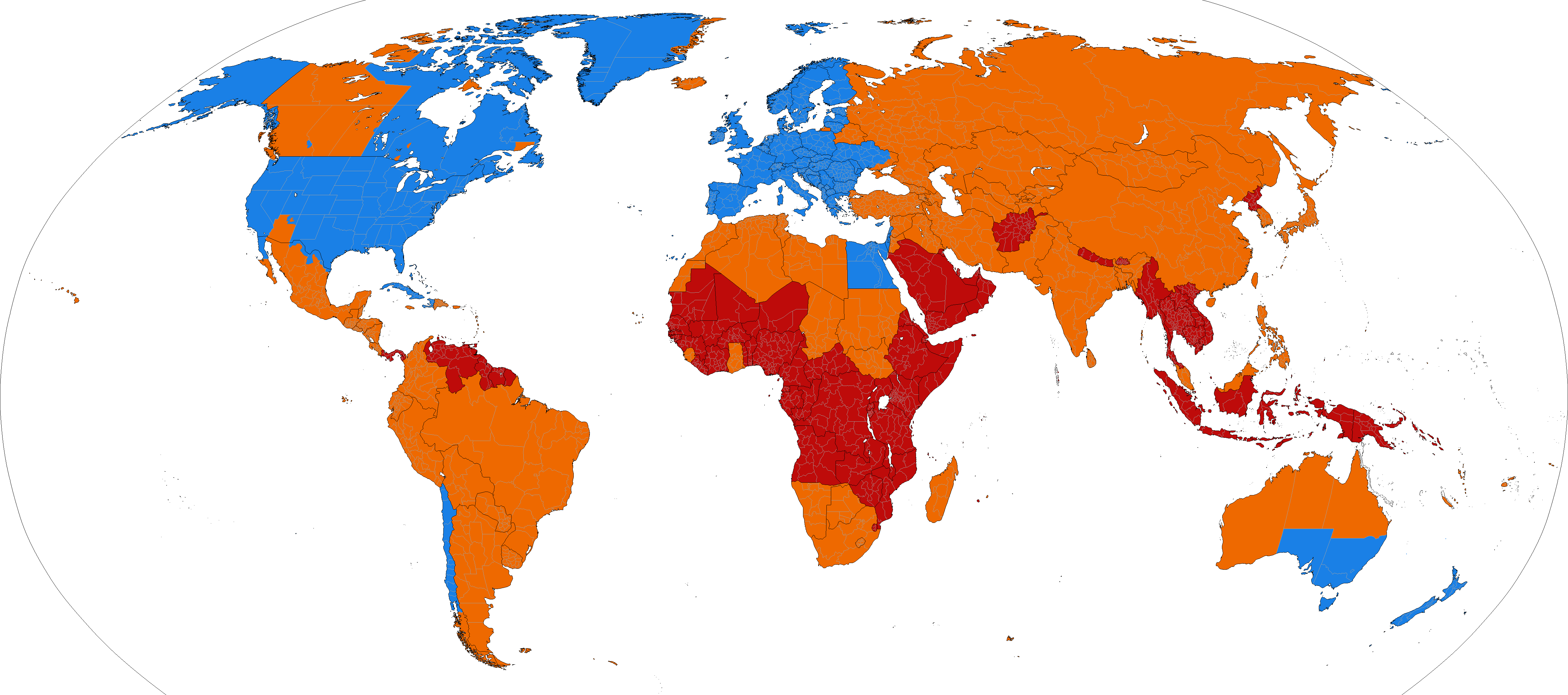 World map showing current and past daylight saving time usage. The Spring-forward/Fall-back adjustment is a common practice at high latitudes. DST is used. DST is no longer used. DST has never been used.